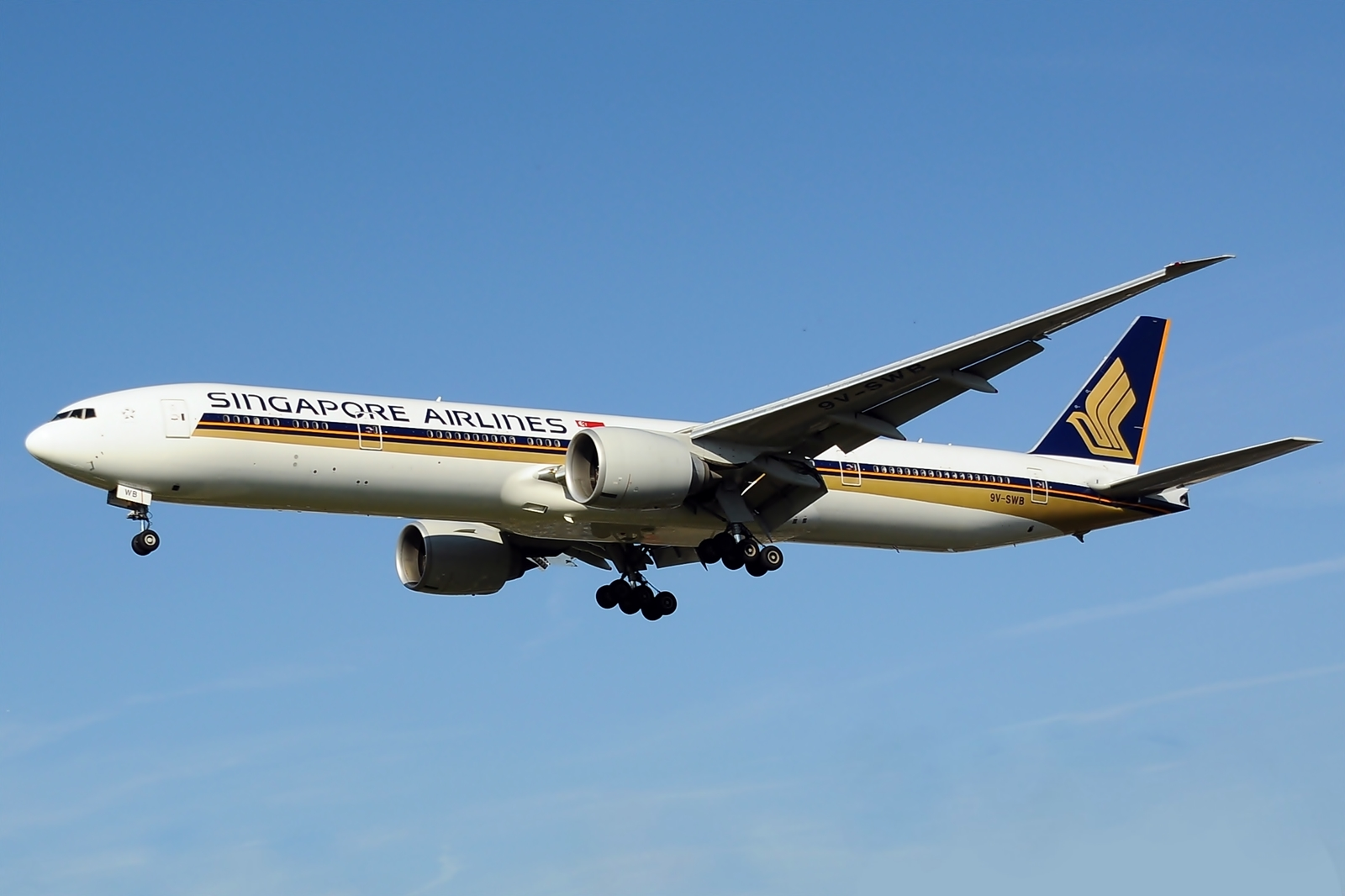 Boeing 777-312ER - Singapore Airlines (9V-SWB) landing at Heathrow Airport